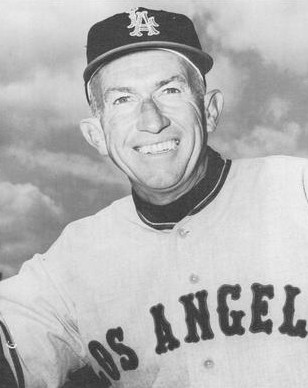 Professional baseball player Bill Rigney